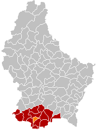 Own edit of Kanton Esch-sur-AlzetteLocatie.png